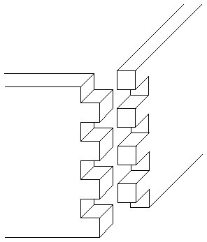 Image of a box joint or box comb used in woodworking. Drawn by Luigi Zanasi, August 2005.